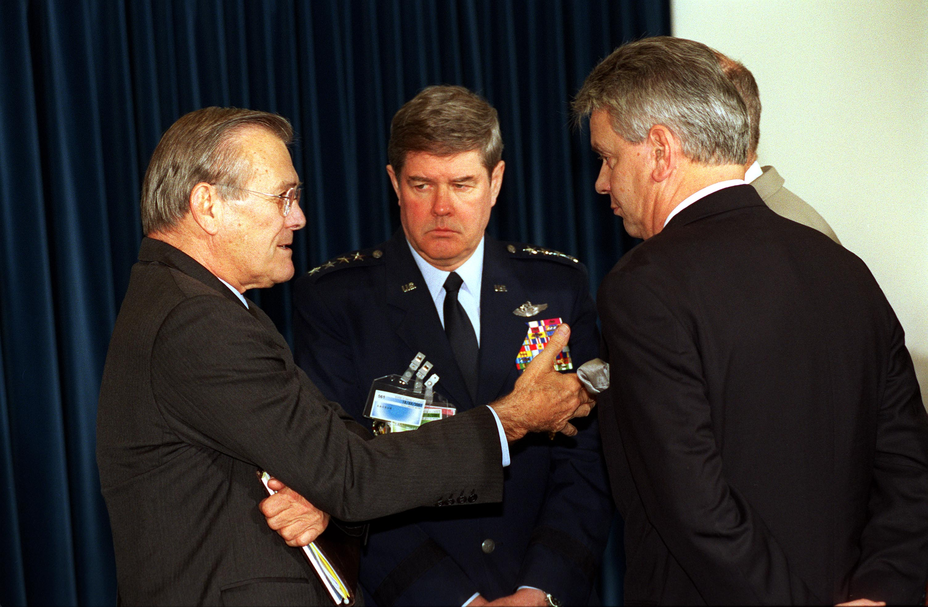 Secretary of Defense Donald H. Rumsfeld (left), Commander in Chief European Command, and Supreme Allied Commander Europe Gen. Joseph W. Ralston (center), U.S. Air Force, and French Minister of Defense Alain Richard (right) conduct informal talks between meetings at NATO Headquarters in Brussels, Belgium, on Dec. 18, 2001.